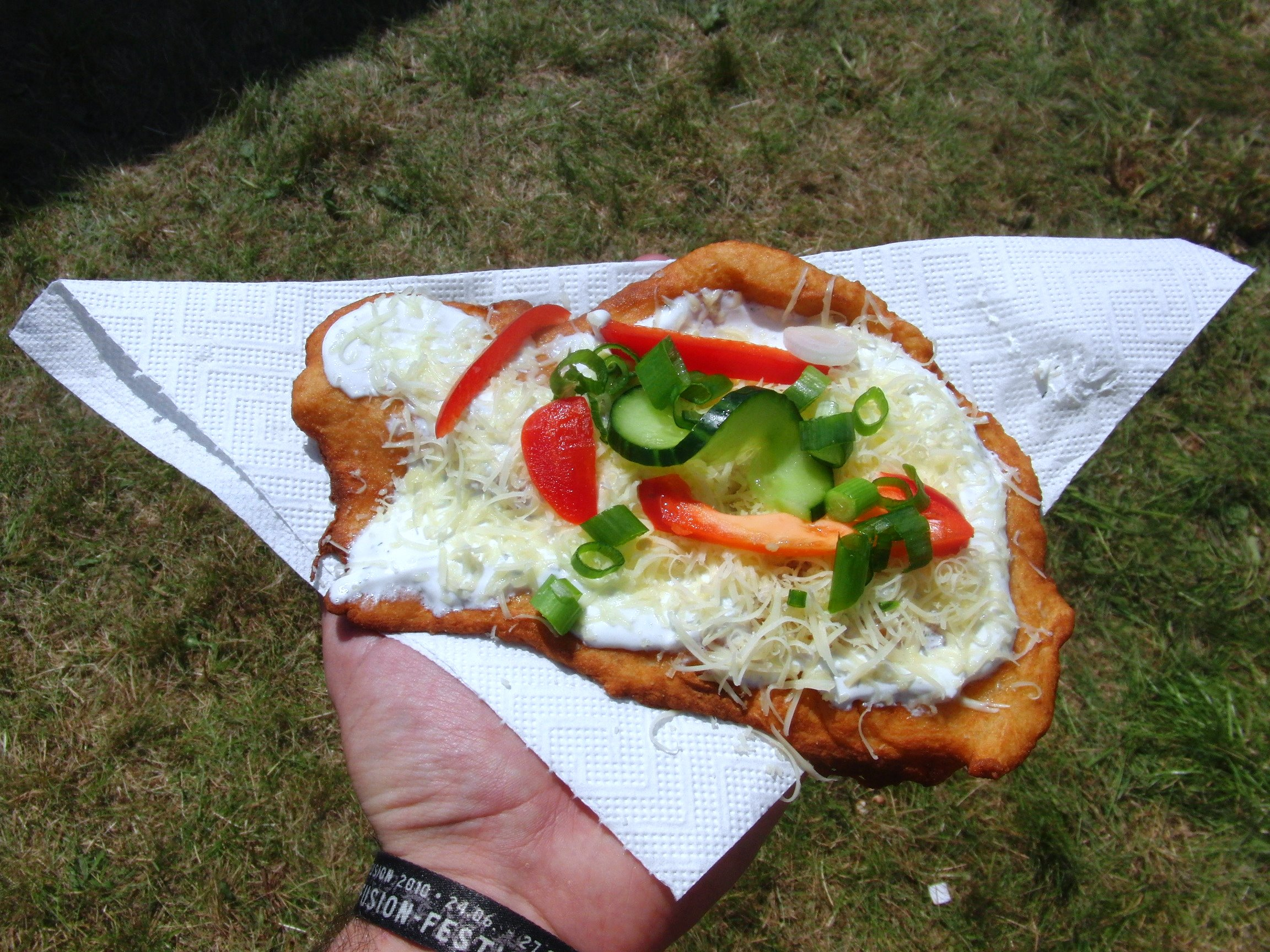 Fusion festival 2010 - arrival and day one- Lángos ( hungarian pancake)